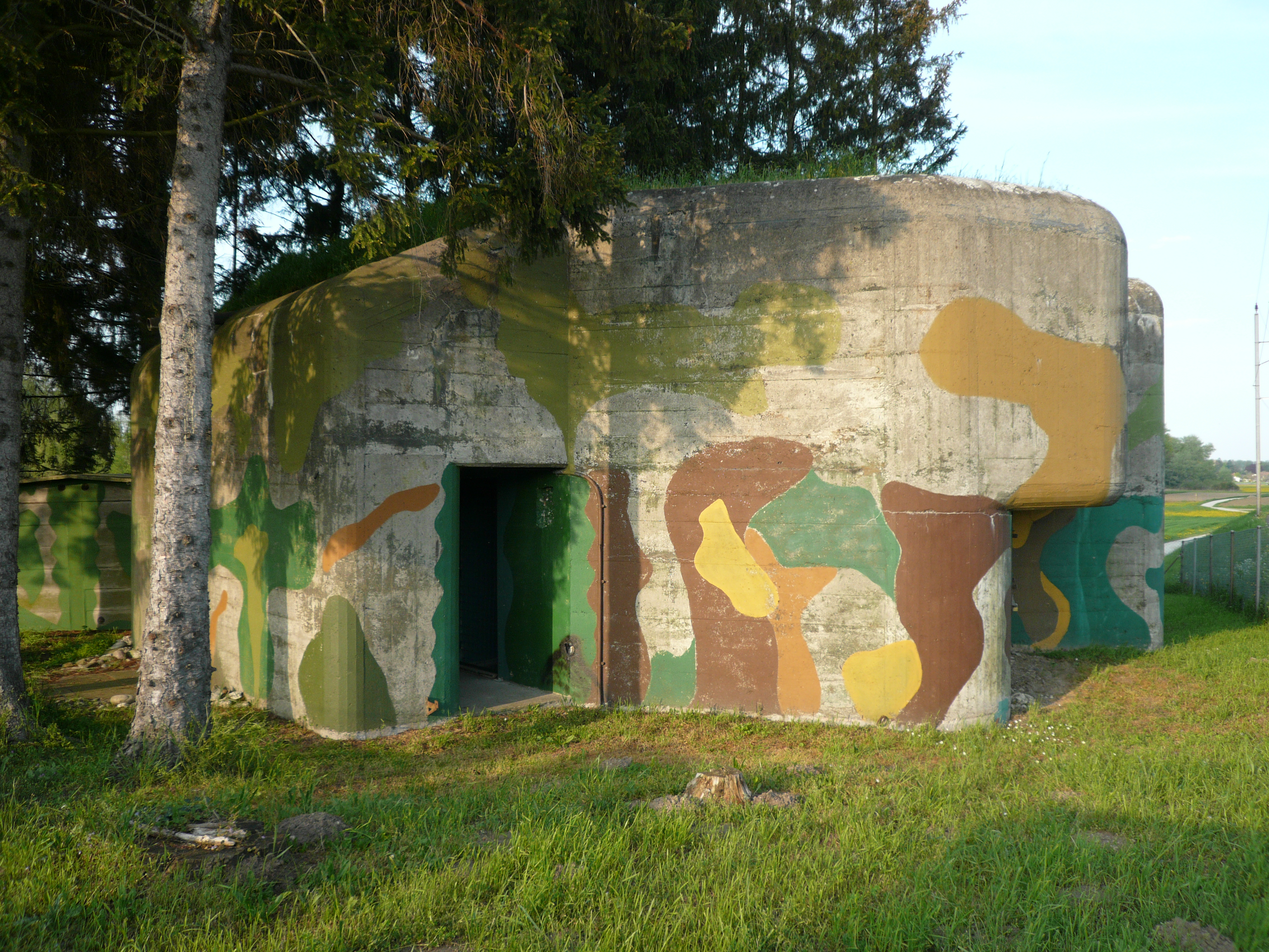 Swiss military building from World War 2 near Triboltingen